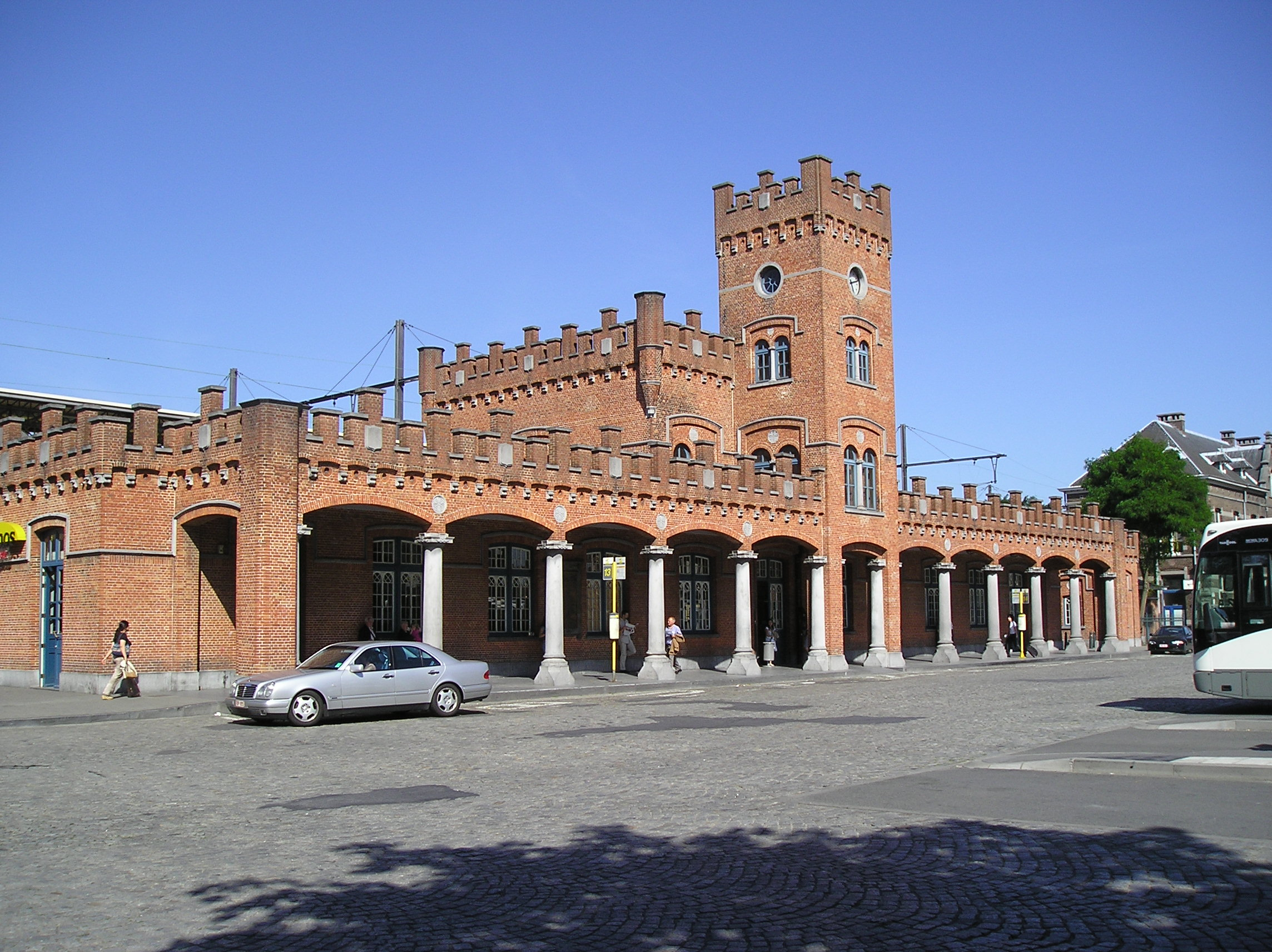 Aalst railway station. The station was officially opened on 6 July 1856 by King Leopold II of the Belgians.